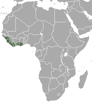 Sooty Mangabey (Cercocebus atys) range